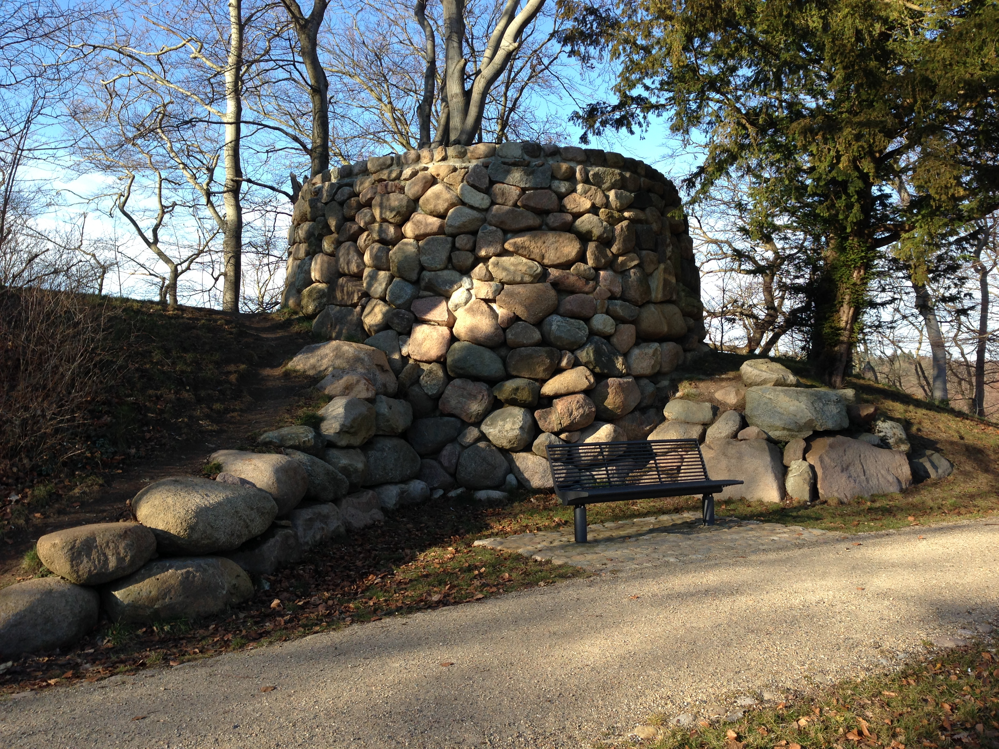 Water tower in Raben Steinfeld, district Ludwigslust-Parchim, Mecklenburg-Vorpommern, Germany